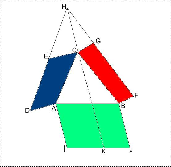 Pythagoras's theorem generalization